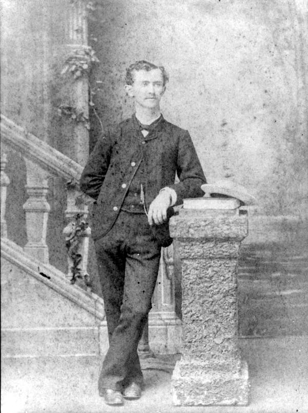 Portrait of Charles J. Perrenot, future Florida Senate president. Senate President for the 1897 session.